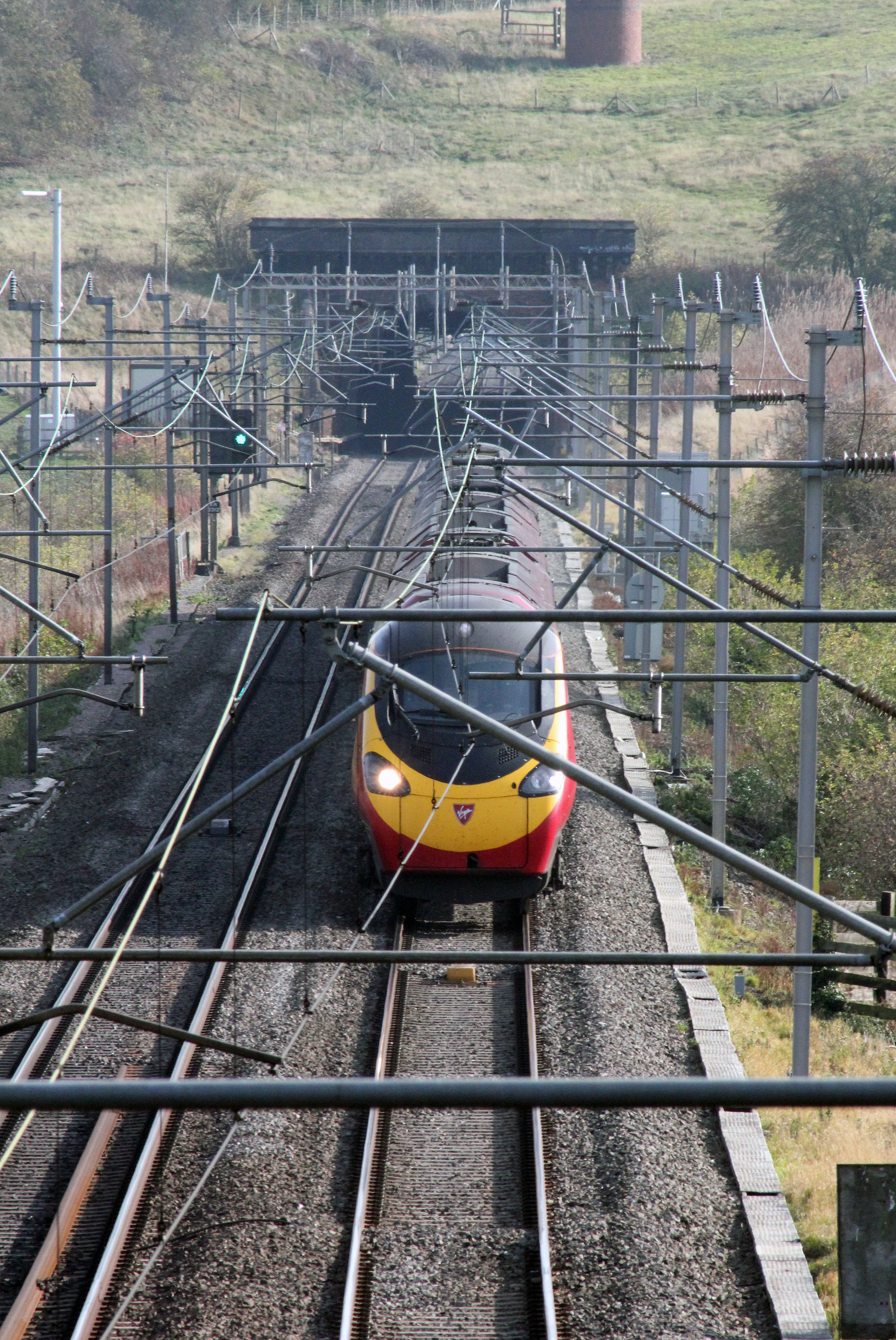 Northbound Virgin Trains Pendalino heading north leaving Stowe Hill tunnel of the West Coast Main Line south of Weedon Northamptonshire at about 125mph